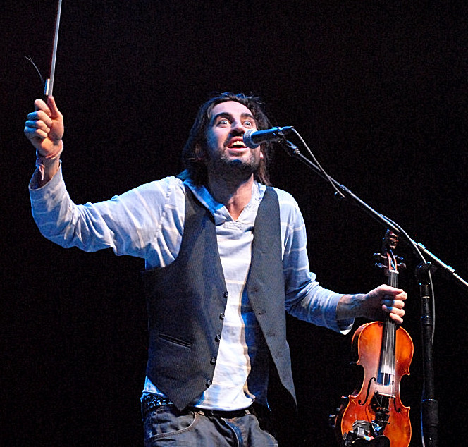 Aindrias de Staic at the Filmore in Silver Spring, MD